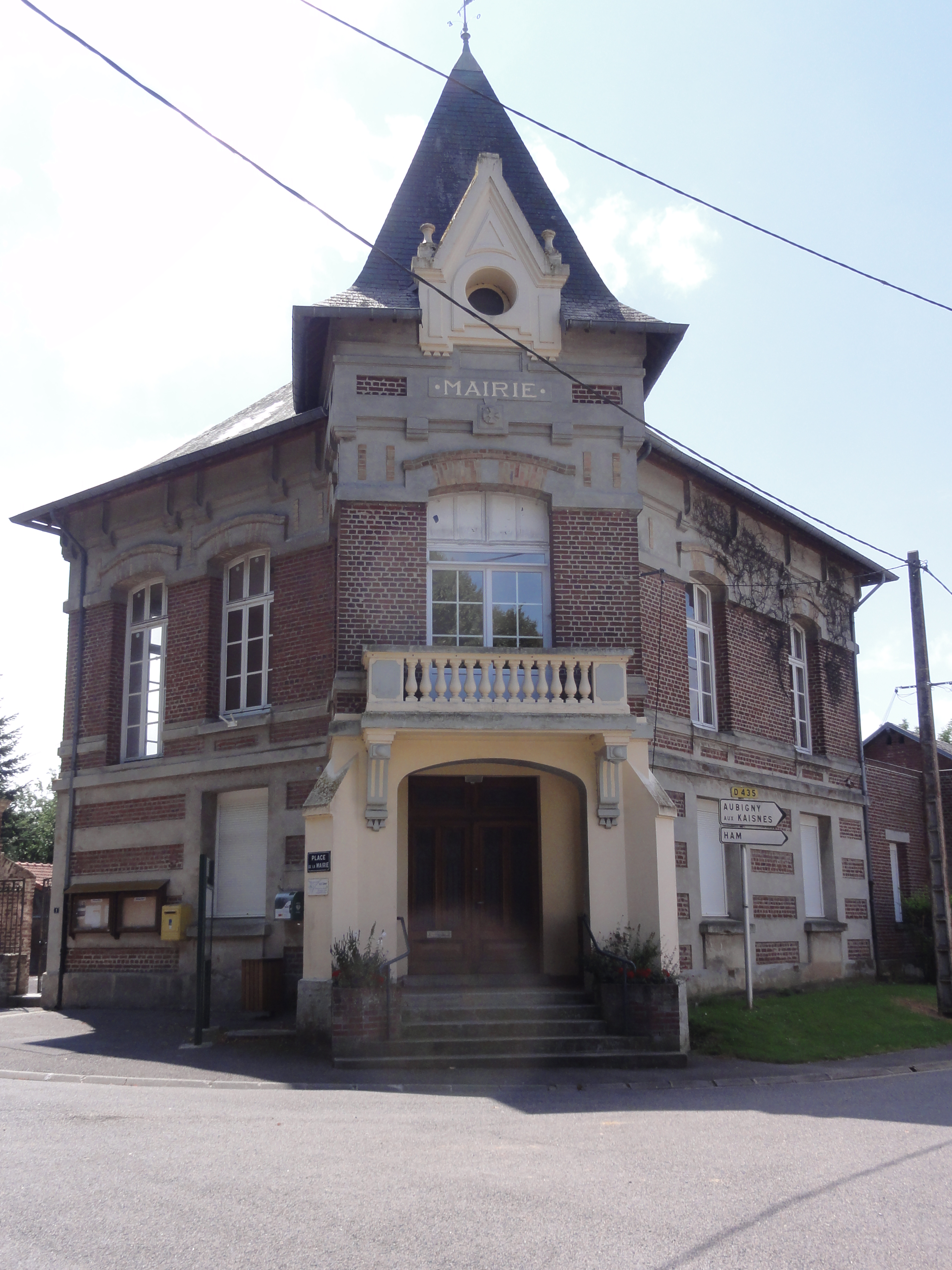 Villers-Saint-Christophe (Aisne) mairie